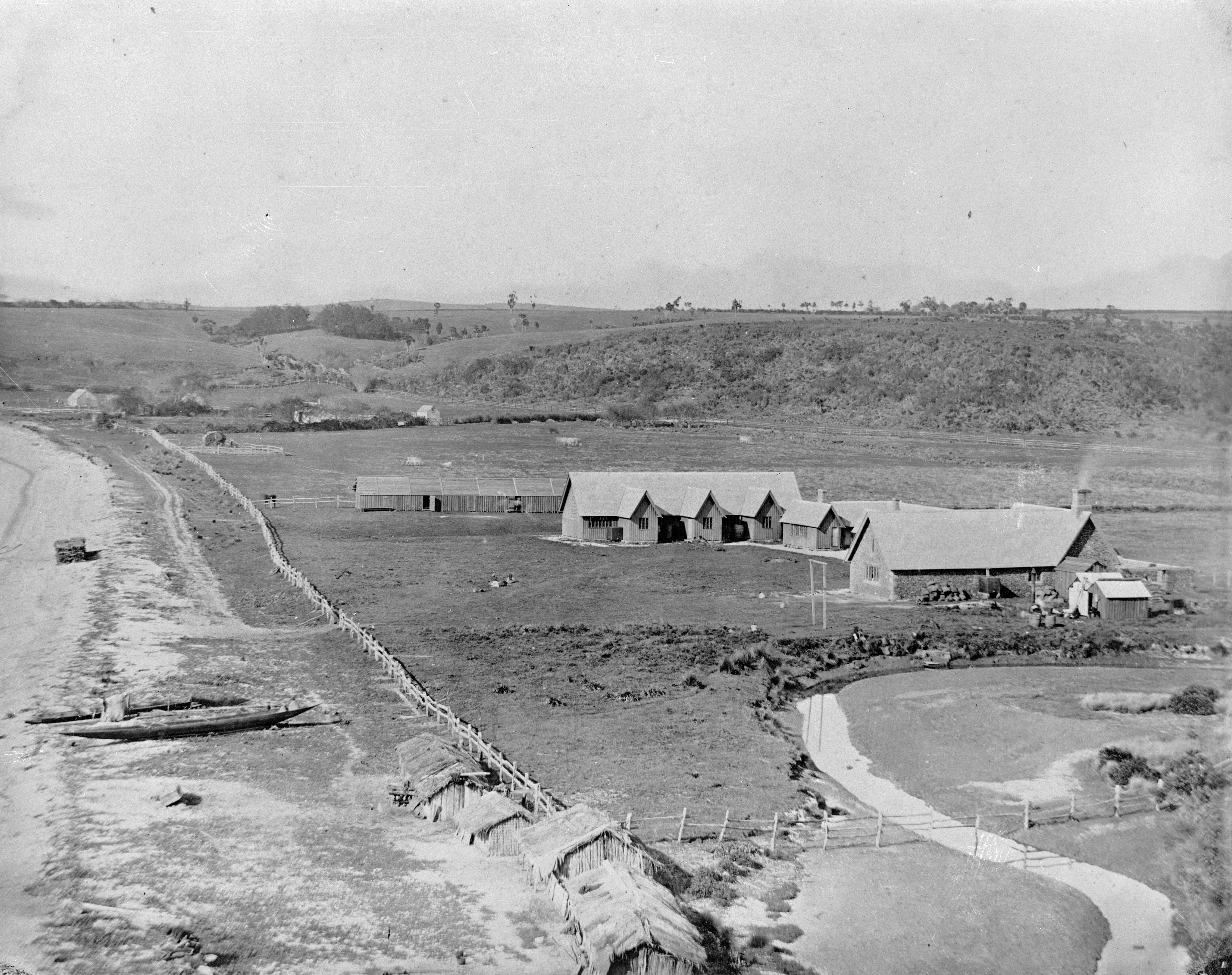 1827-1878. Scene at Kohimarama, Auckland, with Bishop Selwyn's Melanesian Mission station. Urquhart album. Beach front scene at Kohimarama, Auckland, circa 1860, with Bishop Selwyn's Melanesian Mission station. Two waka, and a group of whare, are visible in the foreground. Photograph taken by John Nicol Crombie.